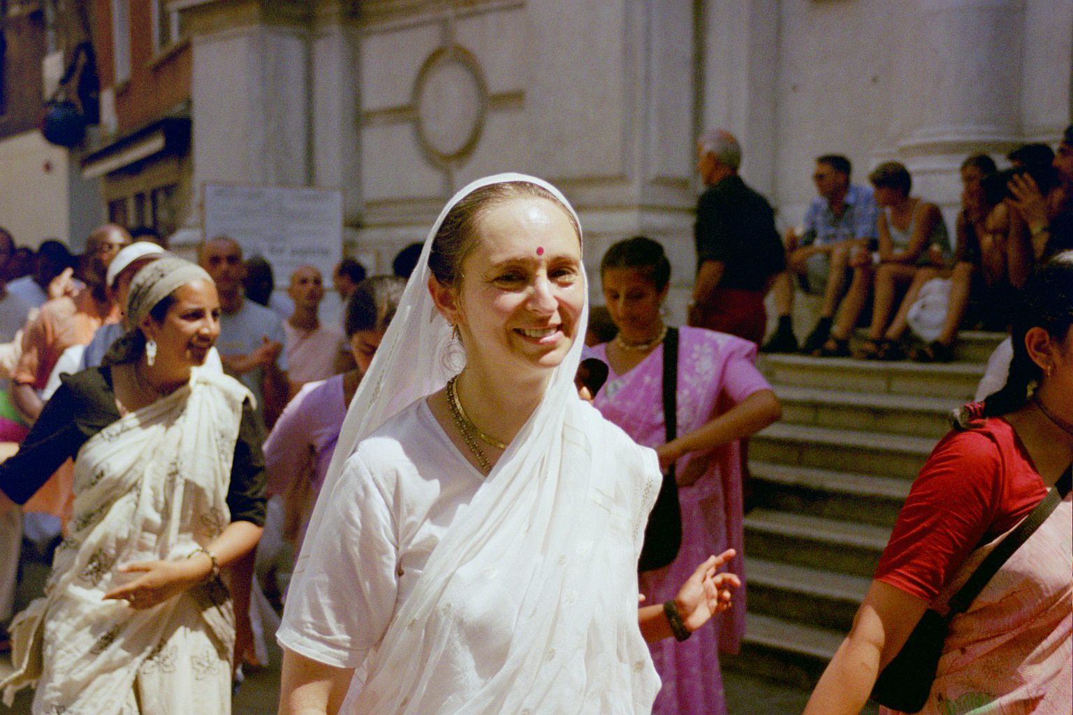 Captured by Janak Rajani Harinam with Iskcon Pandava Sena in Venice, Italy 2003.